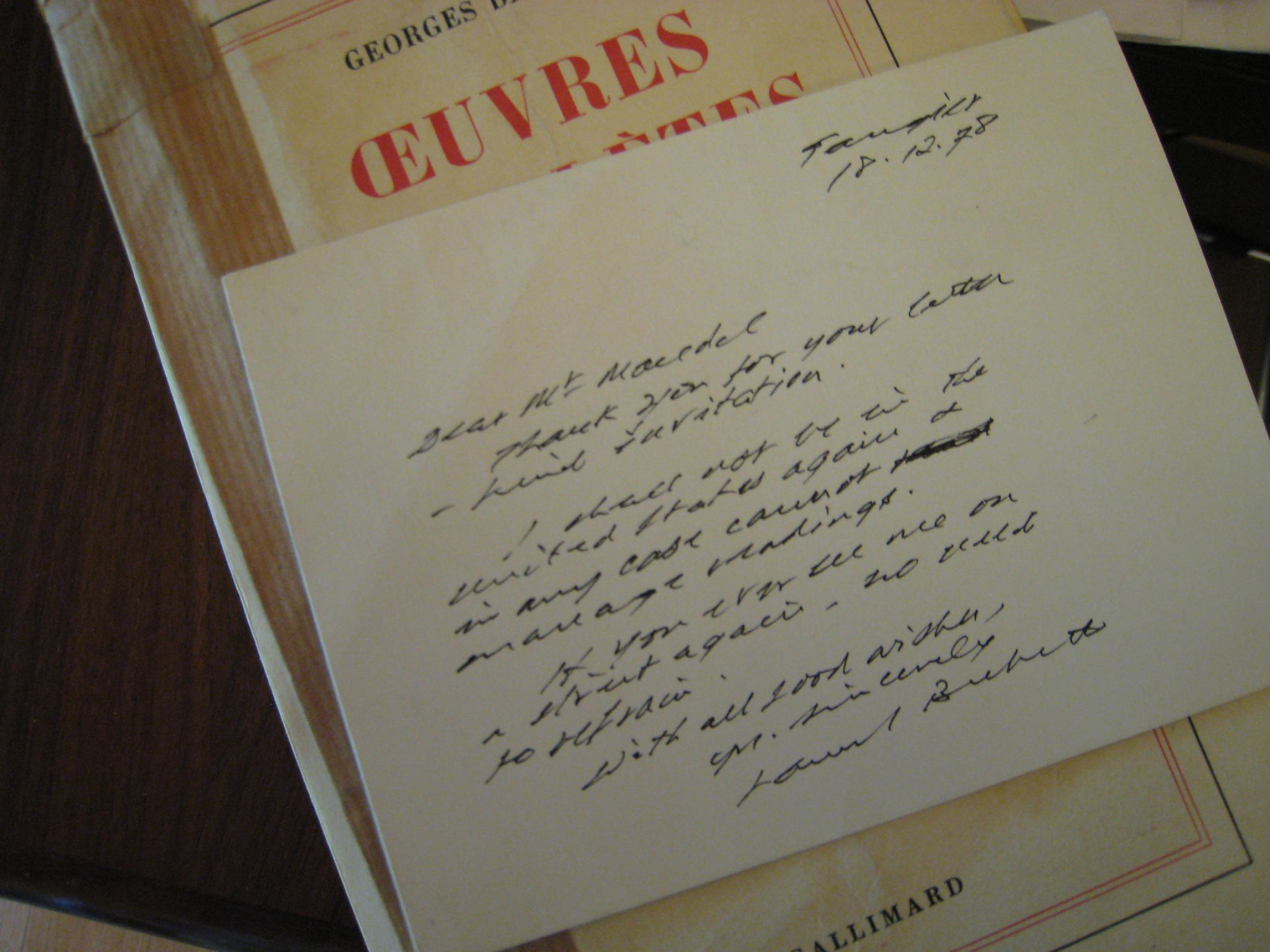 Samuel Beckett's postcard declining my invitation to read at the Poetry Center of San Francisco State University (where I was then Director). I'd often seen him in the street when I lived in Paris, and in the card he encourages me to say hello if I should ever see him again.